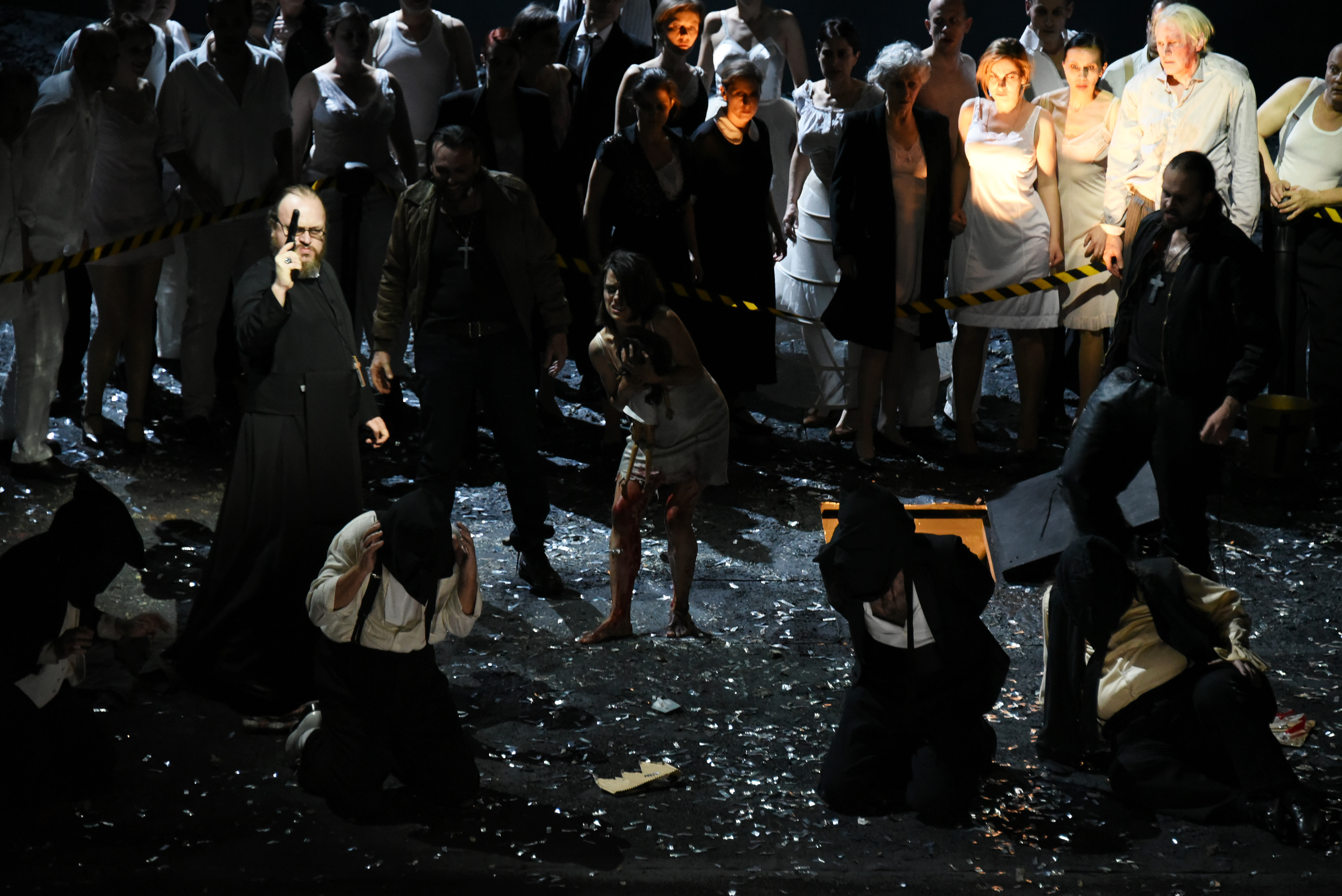 Die Gezeichneten, opera by Franz Schreker (Opéra de Lyon 2015)